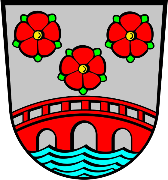 granted 2 March 1910 by Luitpold, Prince Regent of Bavaria